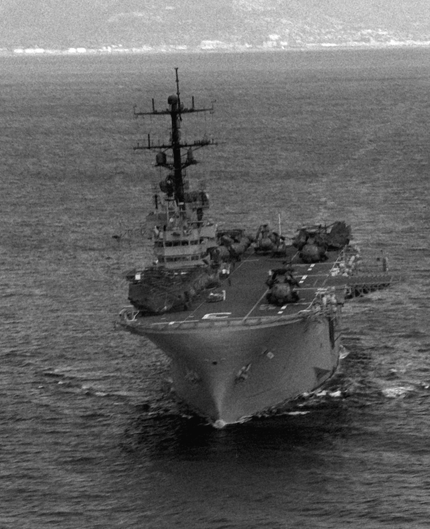 With the Philippines Islands behind it the amphibious assault ship USS OKINAWA (LPH-3) is underway to the open sea with the men of the 31st Marine Amphibious Unit aboard.